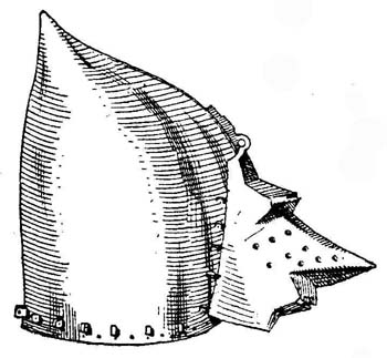 Klappvisier Hundsgugel (Italian in German Style, XIVth century)